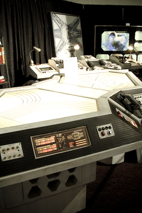 Battlestar Galactica - Part of the film set.